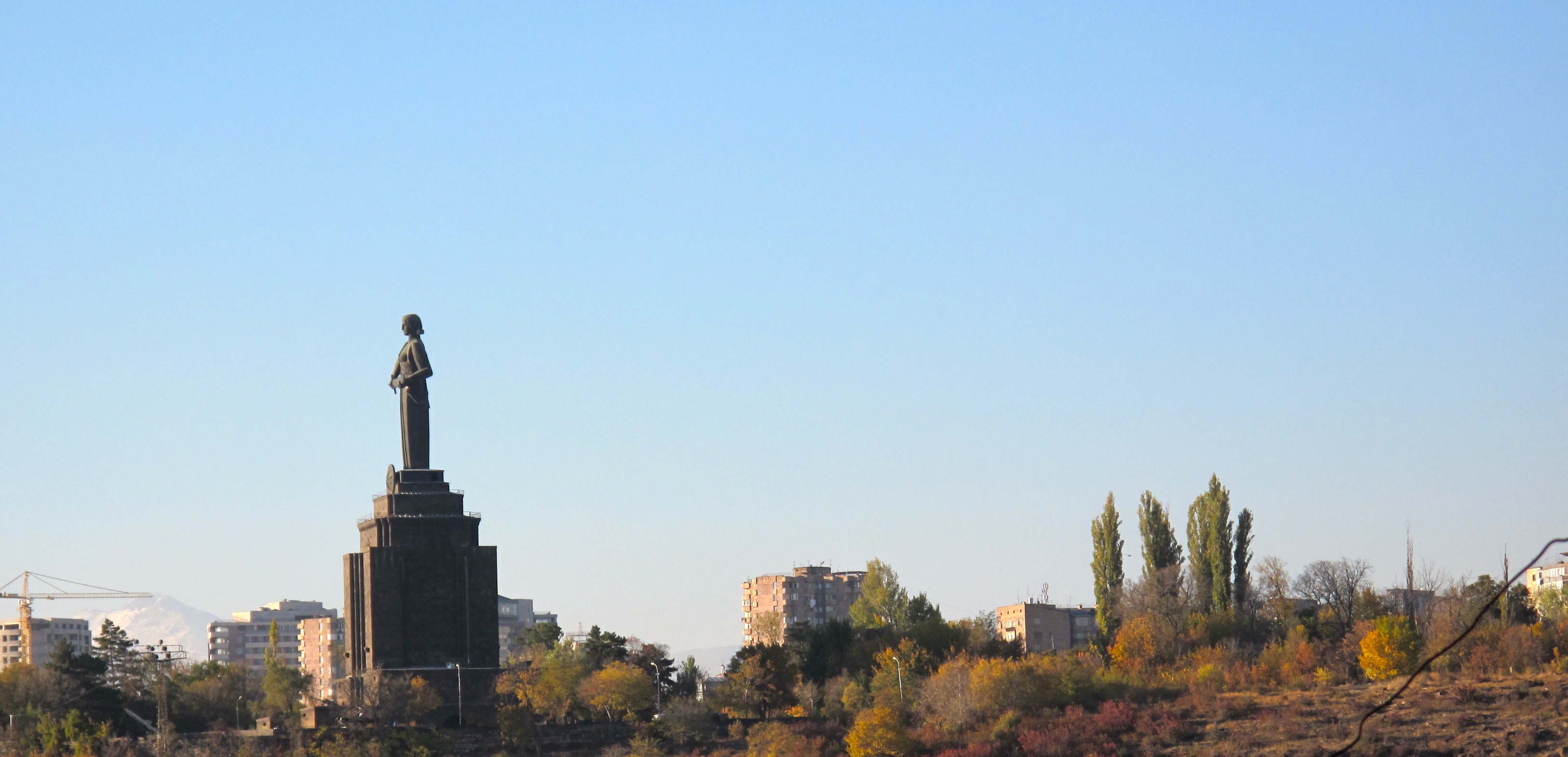 Mother Armenia panoramic vie in Yerevan